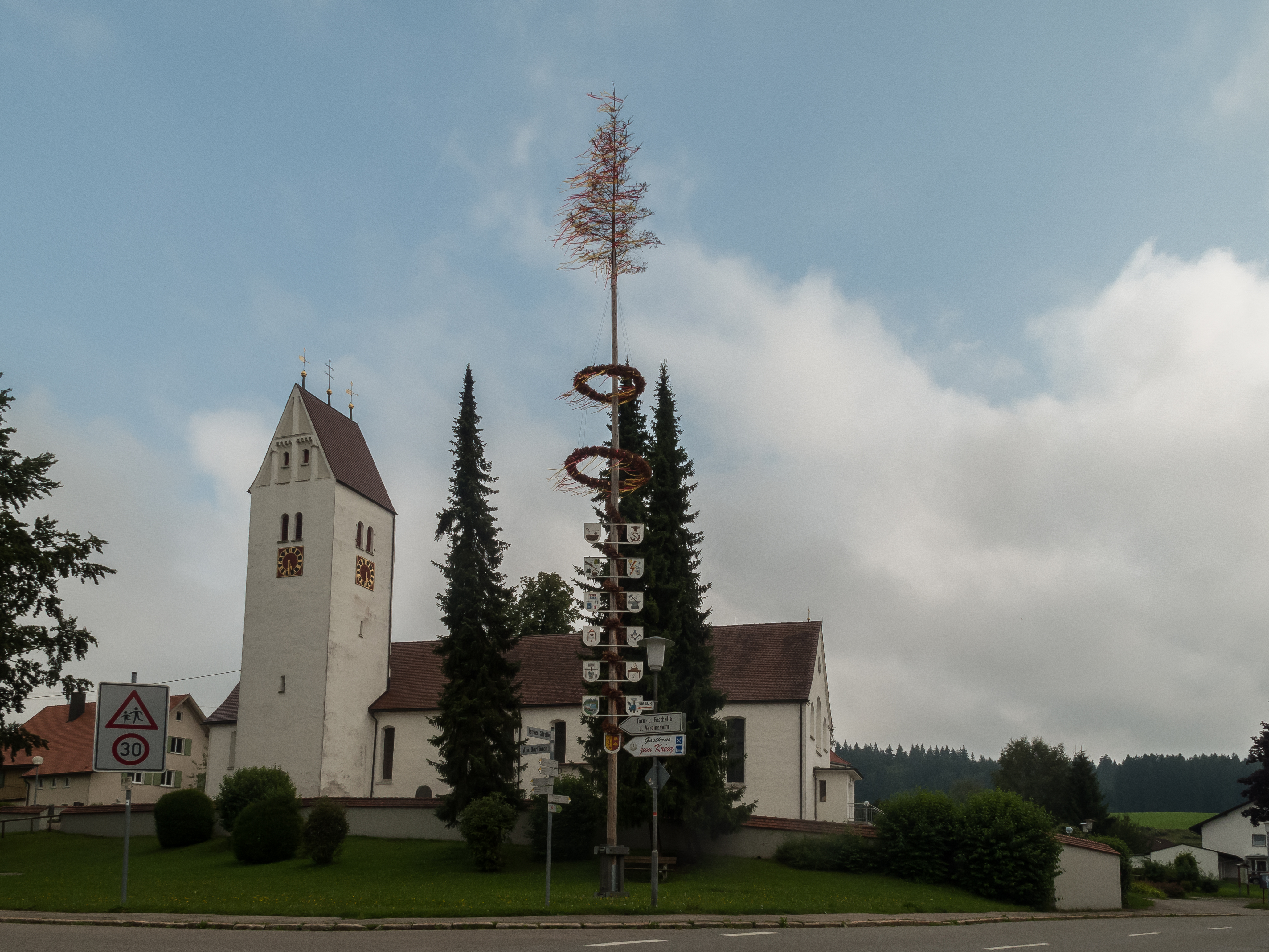 Beuren, church: die Sankt Peter und Paul Kirche